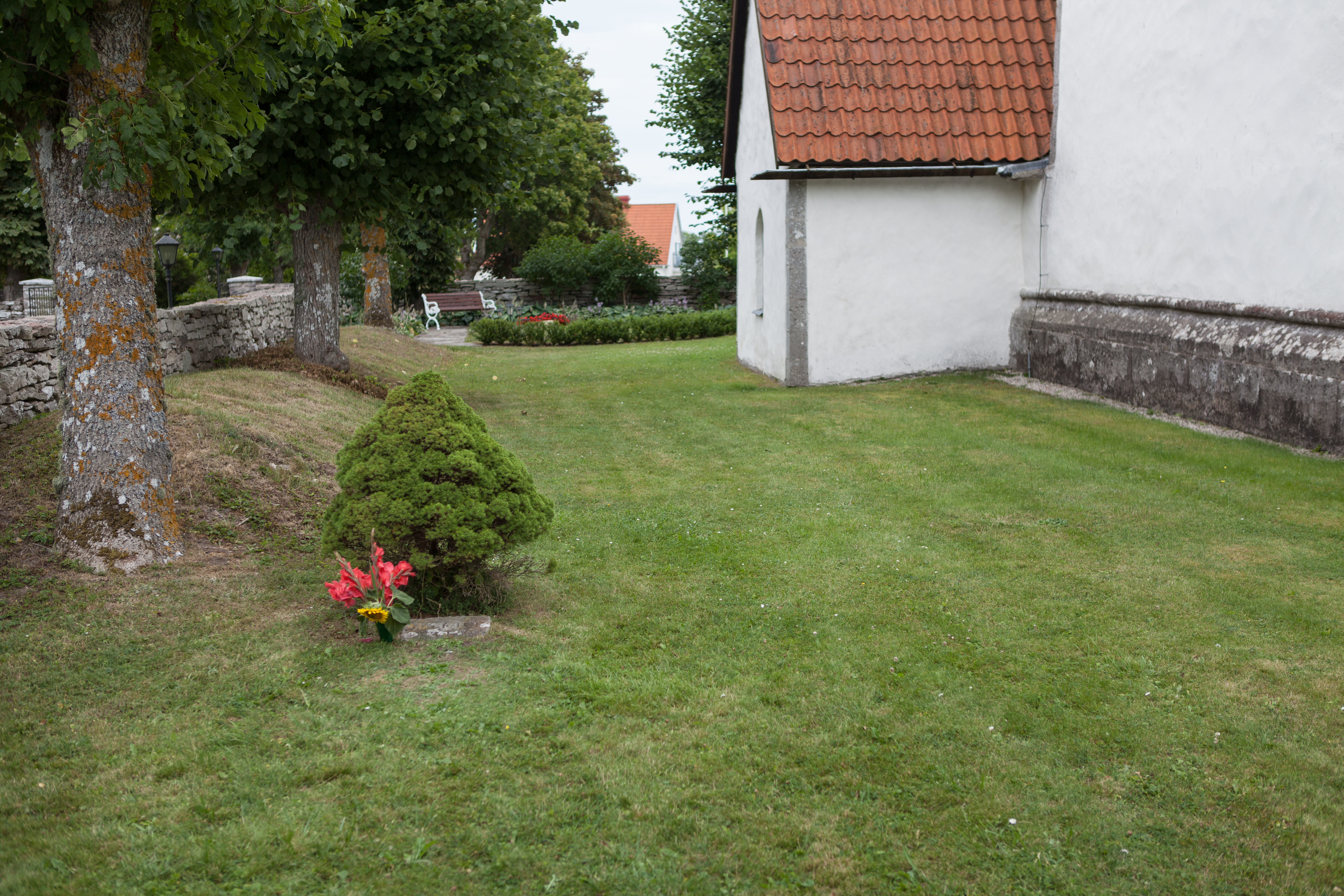 Gravestone of Konrad Tector. Located at Stenkumla church on Gotland, Sweden.